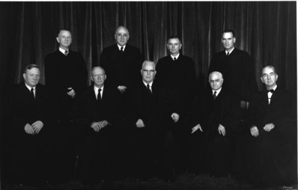 Photograph of the U.S. Supreme Court as it was composed from October 13, 1958 to March 26, 1962